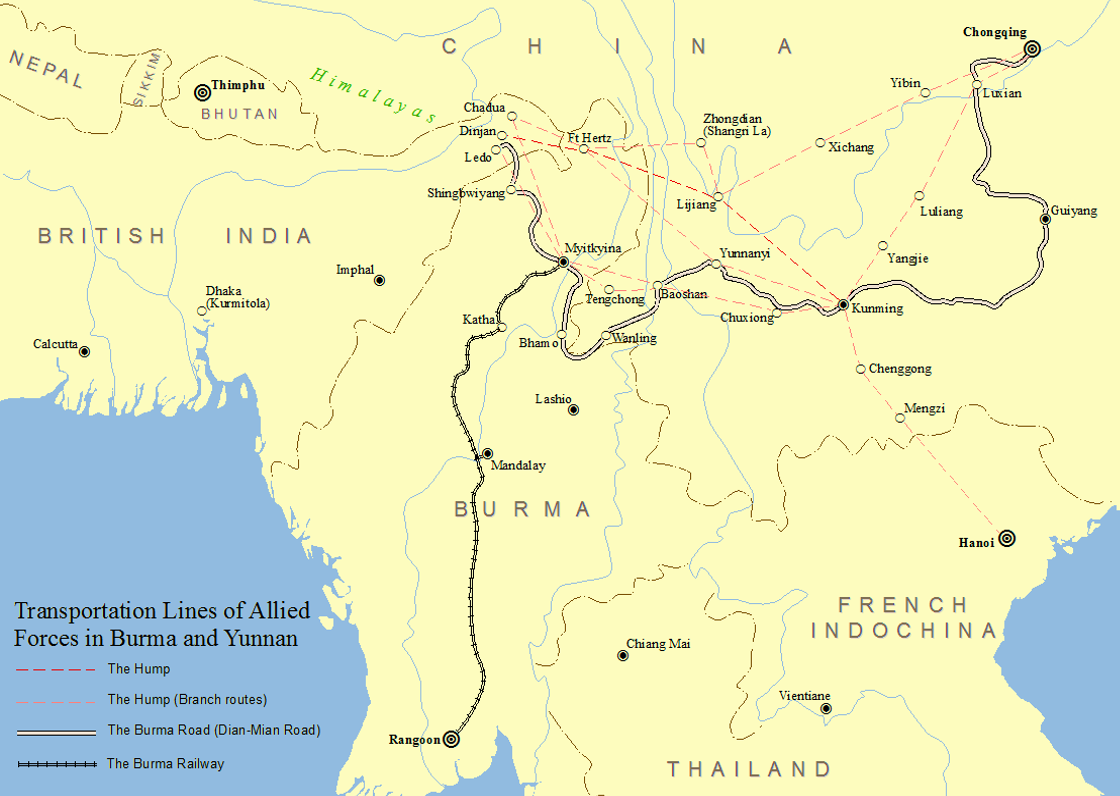 Transportation Lines of Allied Forces in Burma and Yunnan Province of China During World War II